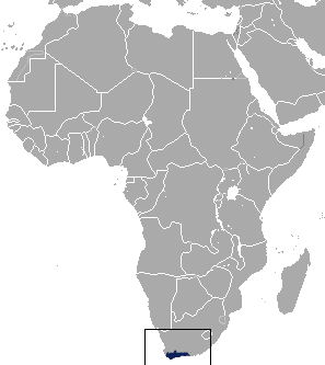 Fynbos Golden Mole (Amblysomus corriae) range